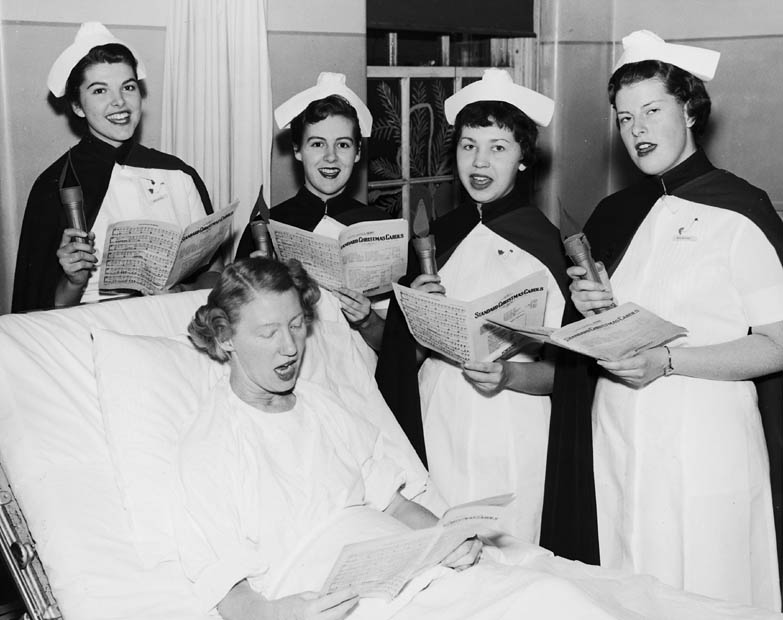 Four nurses at the Toronto Western Hospital are gathered around a patient with flashlights decorated as candles and Christmas carol song books. The patient is singing along with them. c.1955